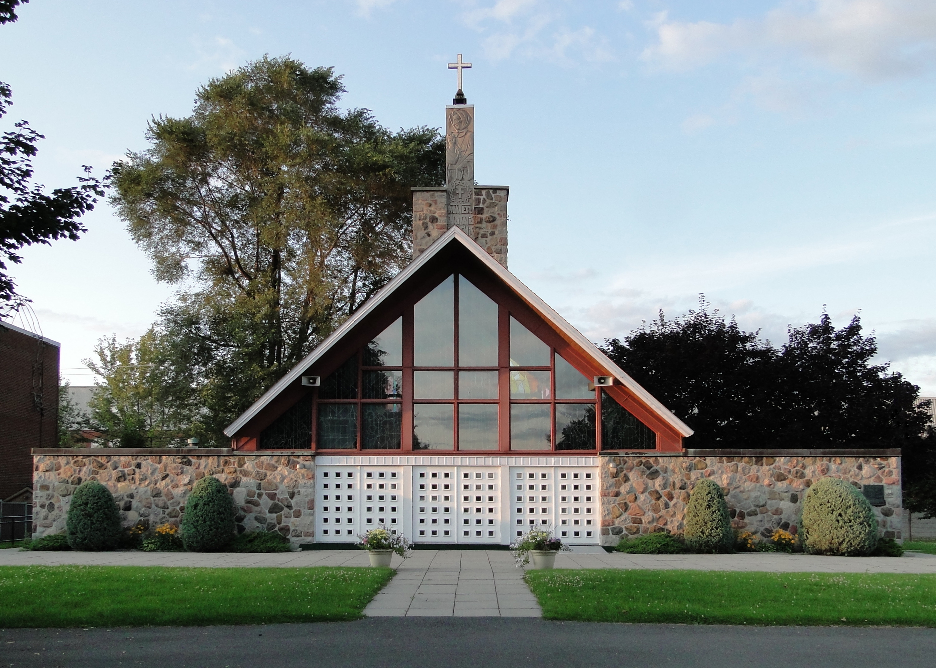 Marguerite d'Youville Sanctuary (1961), Varennes, province of Quebec, Canada